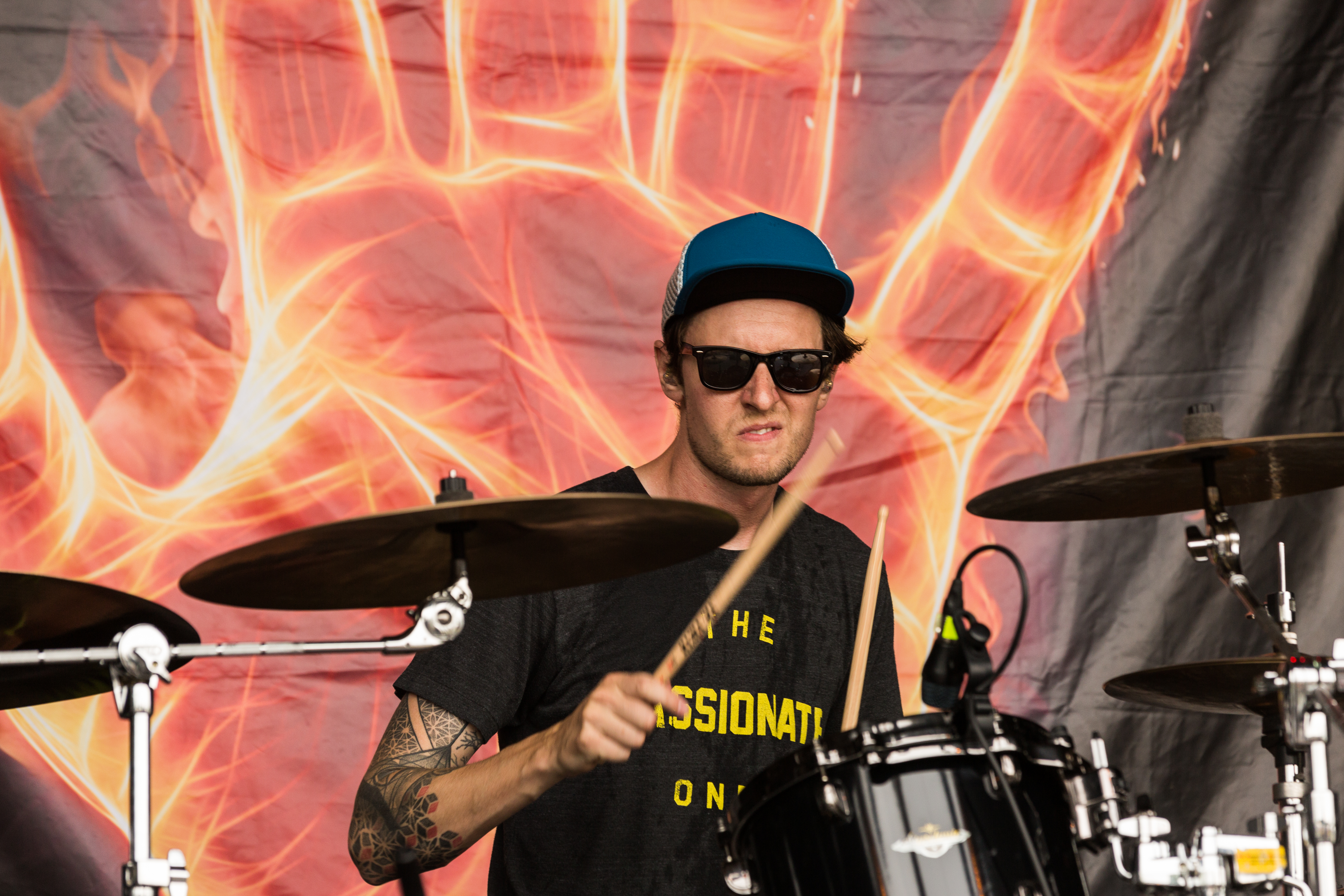 The German metalcore band Virtue Concept at the Metal Frenzy 2017 in Gardelegen/Germany.